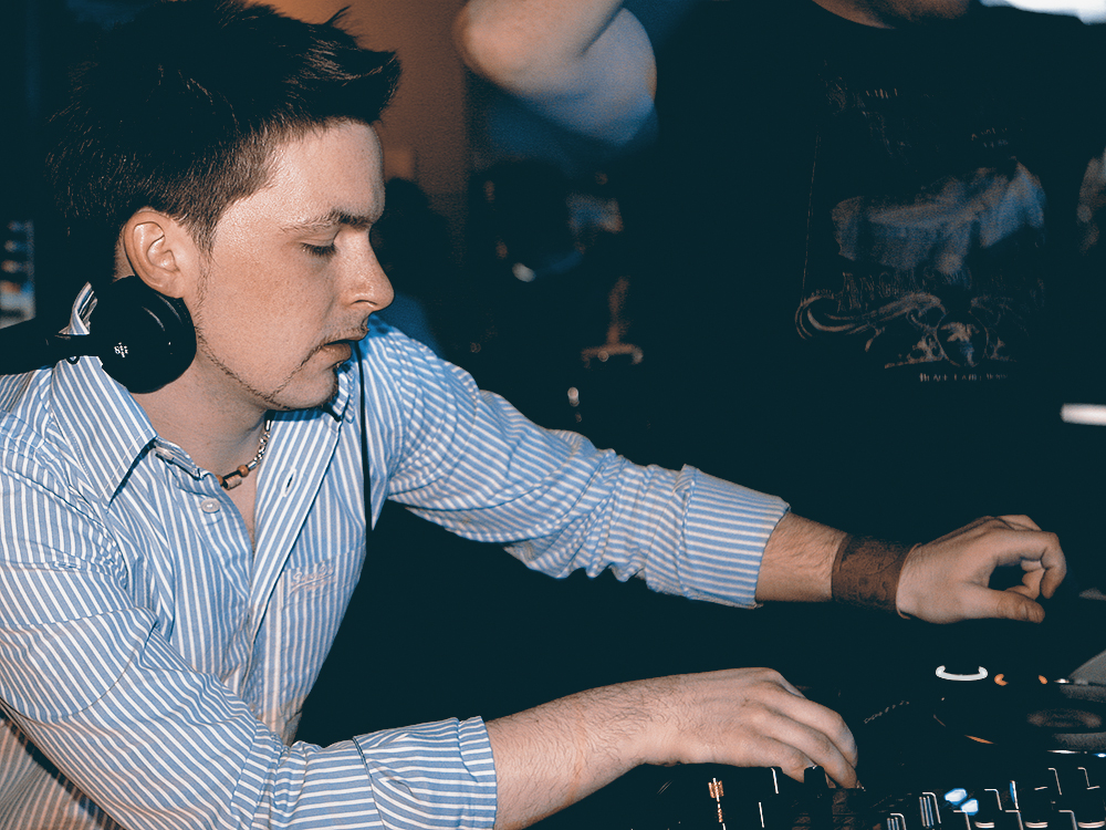 DJ Mog at the Beach Club, Belfast 2008